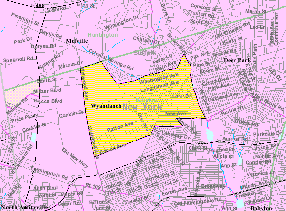 U.S. Census 2000 reference map for Wyandanch